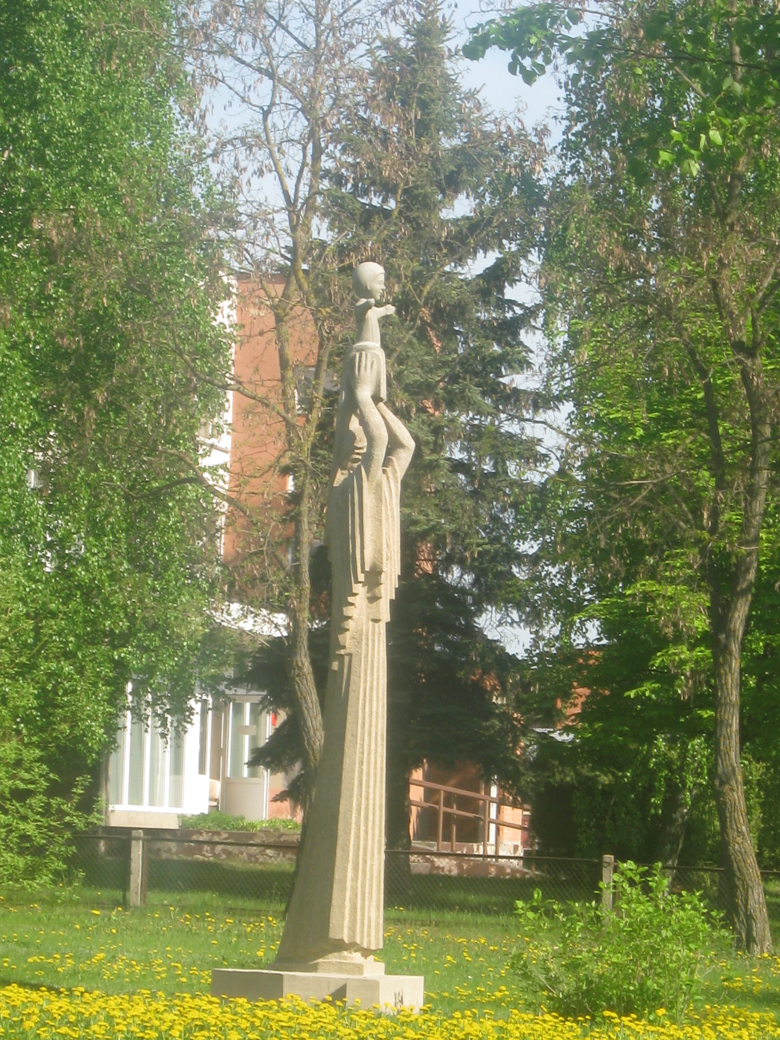 Sculpture next to Jonava hospital